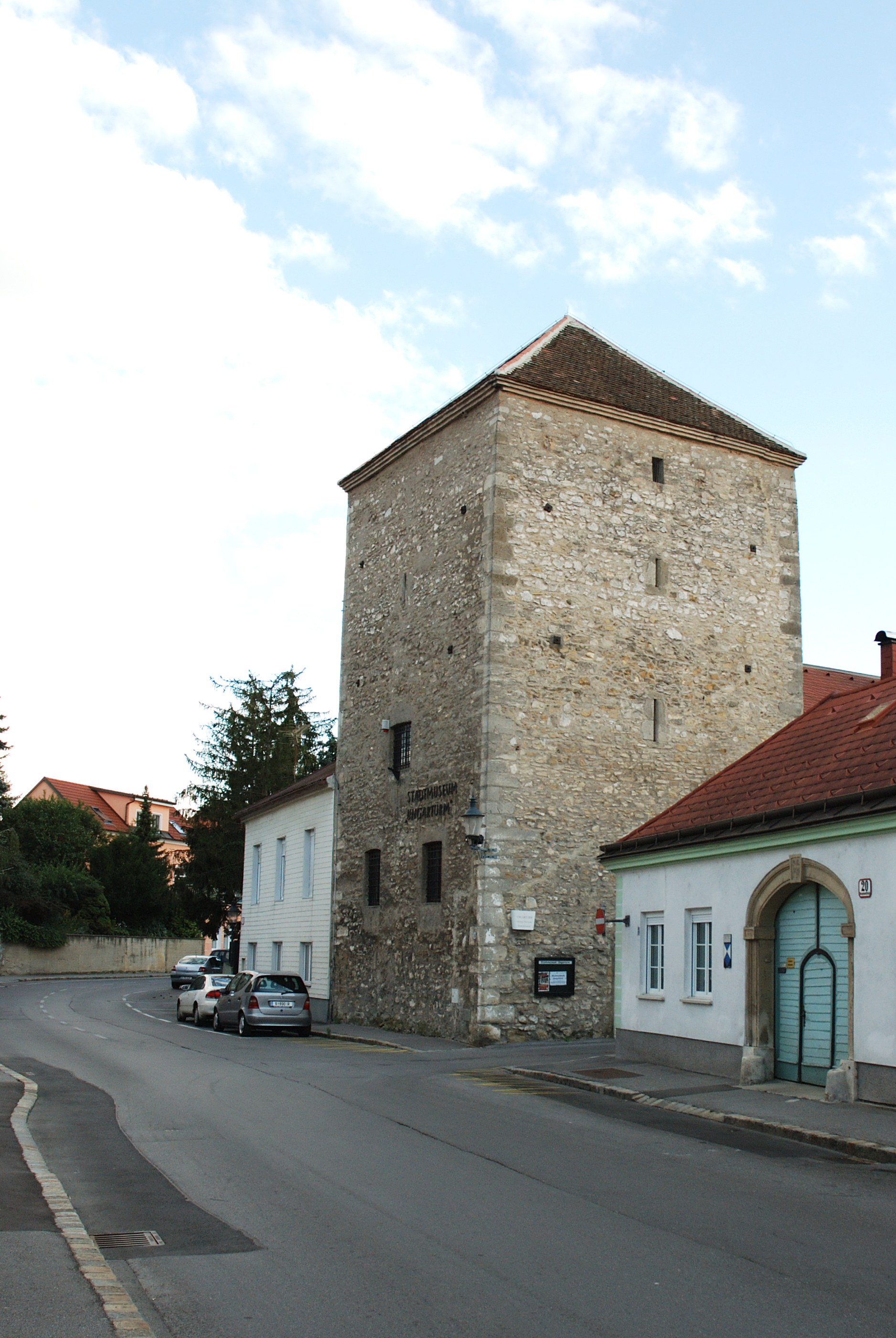 The Ungarturm was part of the defensive wall of Bruck an der Leitha, Austria. Today it accommodates the museum of the town.